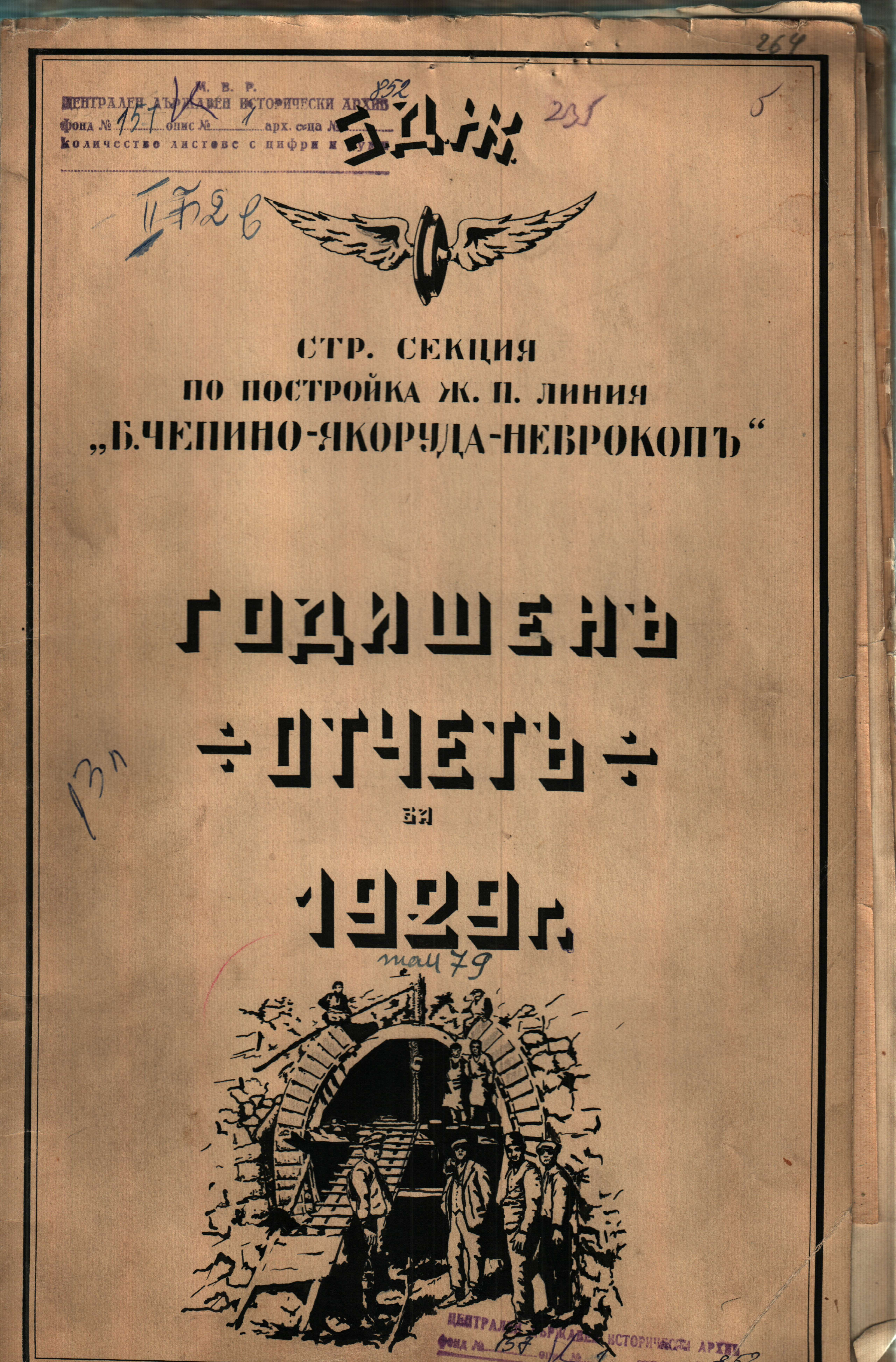 Septemvri-Dobrinishte narrow gauge line building, 1929